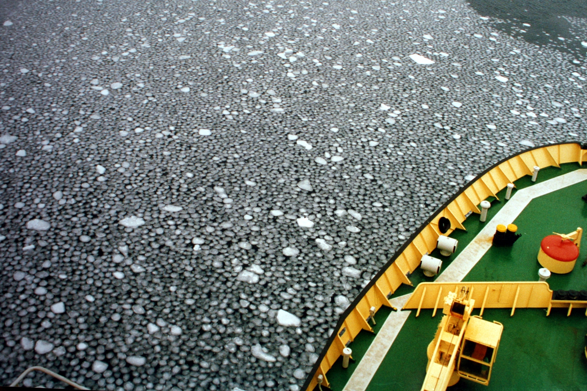 Pancake sea ice in the Ross Sea, Antarctica